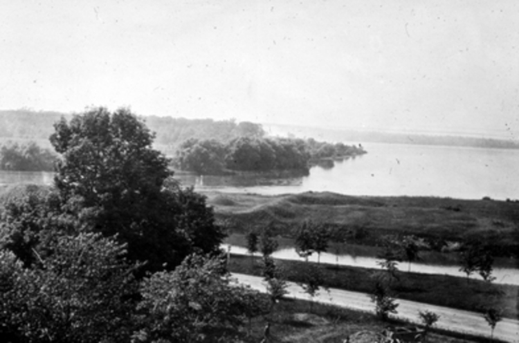 Photograph of the newly created Chippawa Cut in the Welland River/Canal, which served to move its mouth southward and out of the dangerous currents of the Upper Rapids. The cut would stay in use for 6 years before the Welland Canal was rerouted to Port Colborne in 1833. The old Niagara Road is visible in the foreground